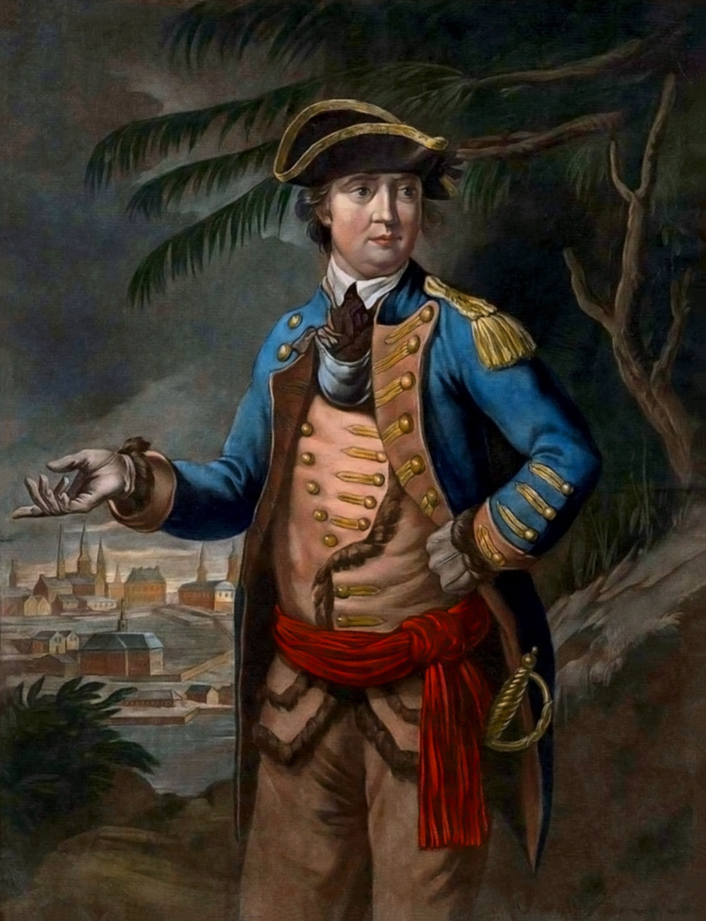 This is a color mezzotint of American Revolutionary War General Benedict Arnold, captioned as follows: Colonel Arnold who commanded the Provincial Troops sent against Quebec, through the wilderness of Canada and was wounded in that city, under General Montgomery. London. Published as the Act directs 26 March 1776 by Thos. Hart.